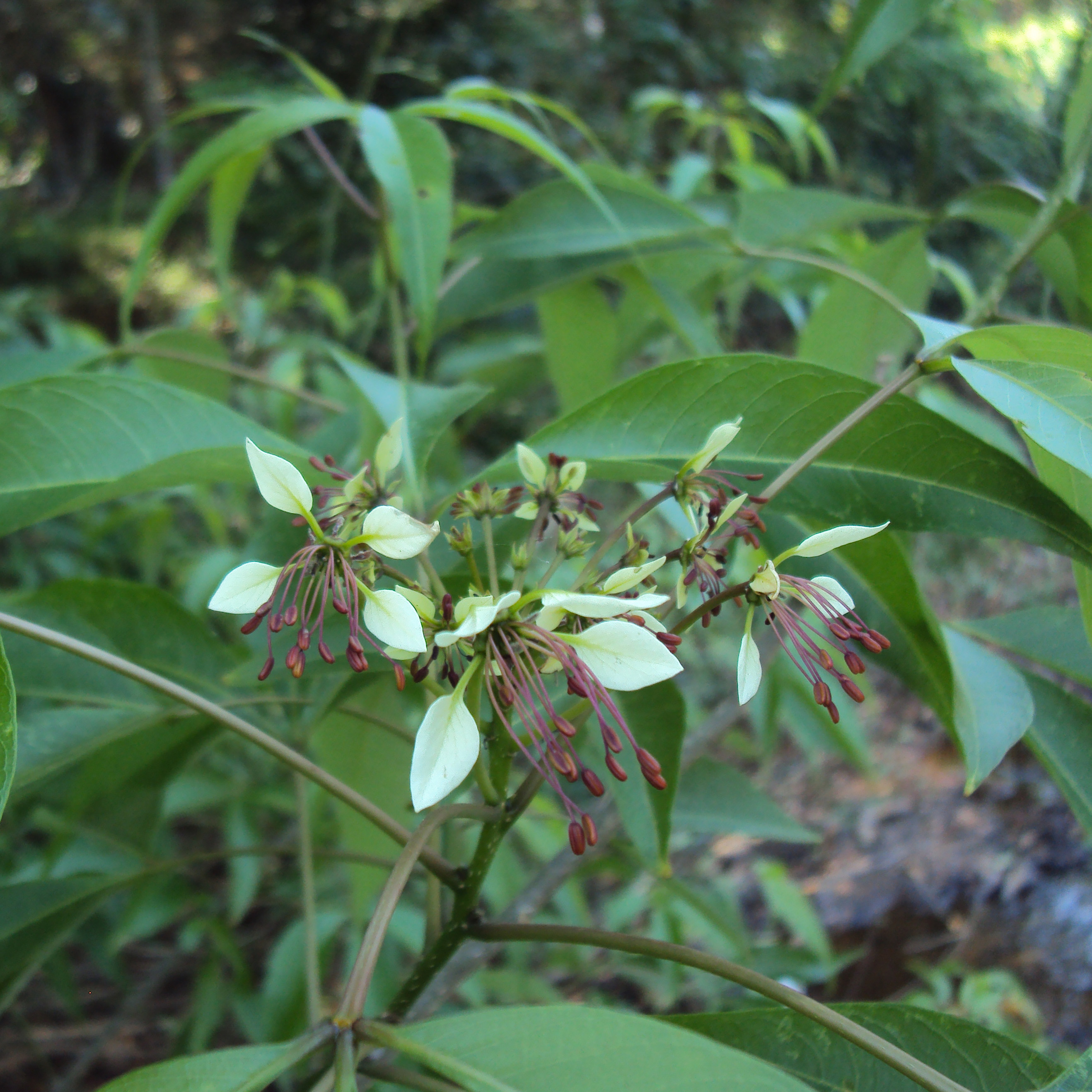 Crataeva magna